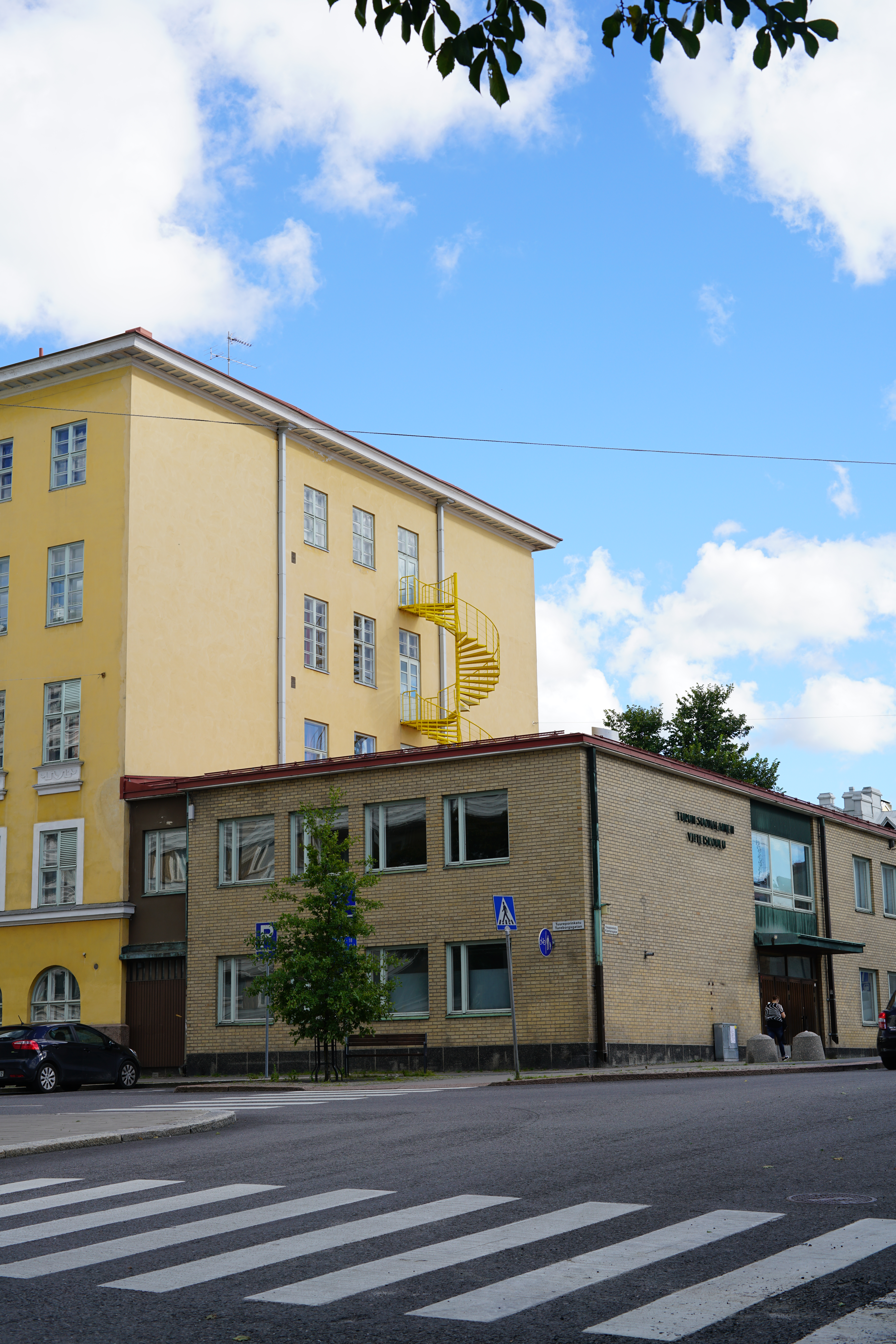 Turun suomalainen yhteiskoulu